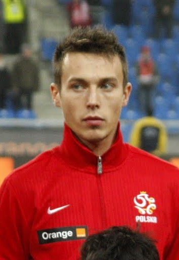 Polish football player Adam Matuszczyk